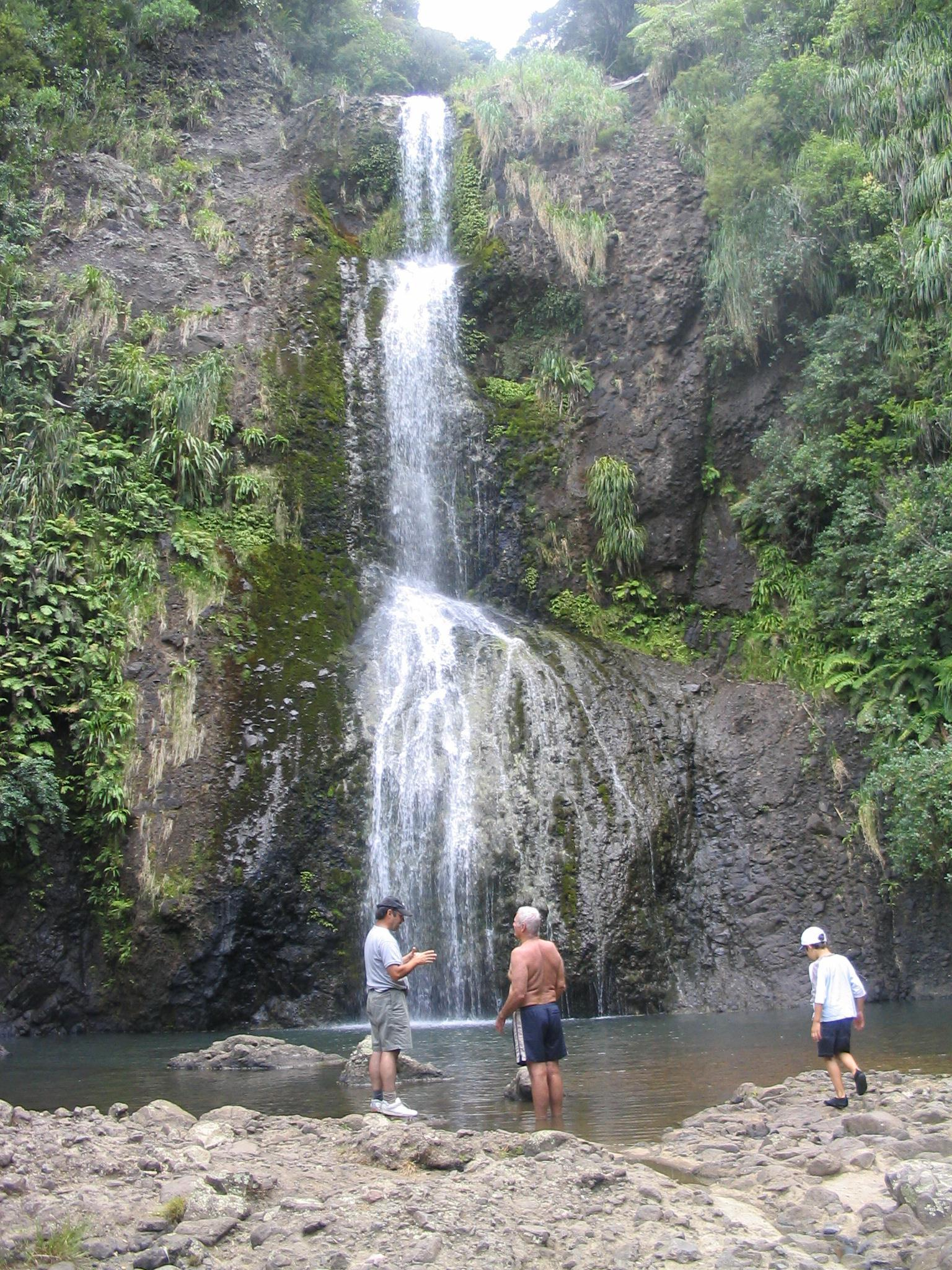 Kitekite falls 2008 Near Piha, Auckland, New Zealand. David Burgess